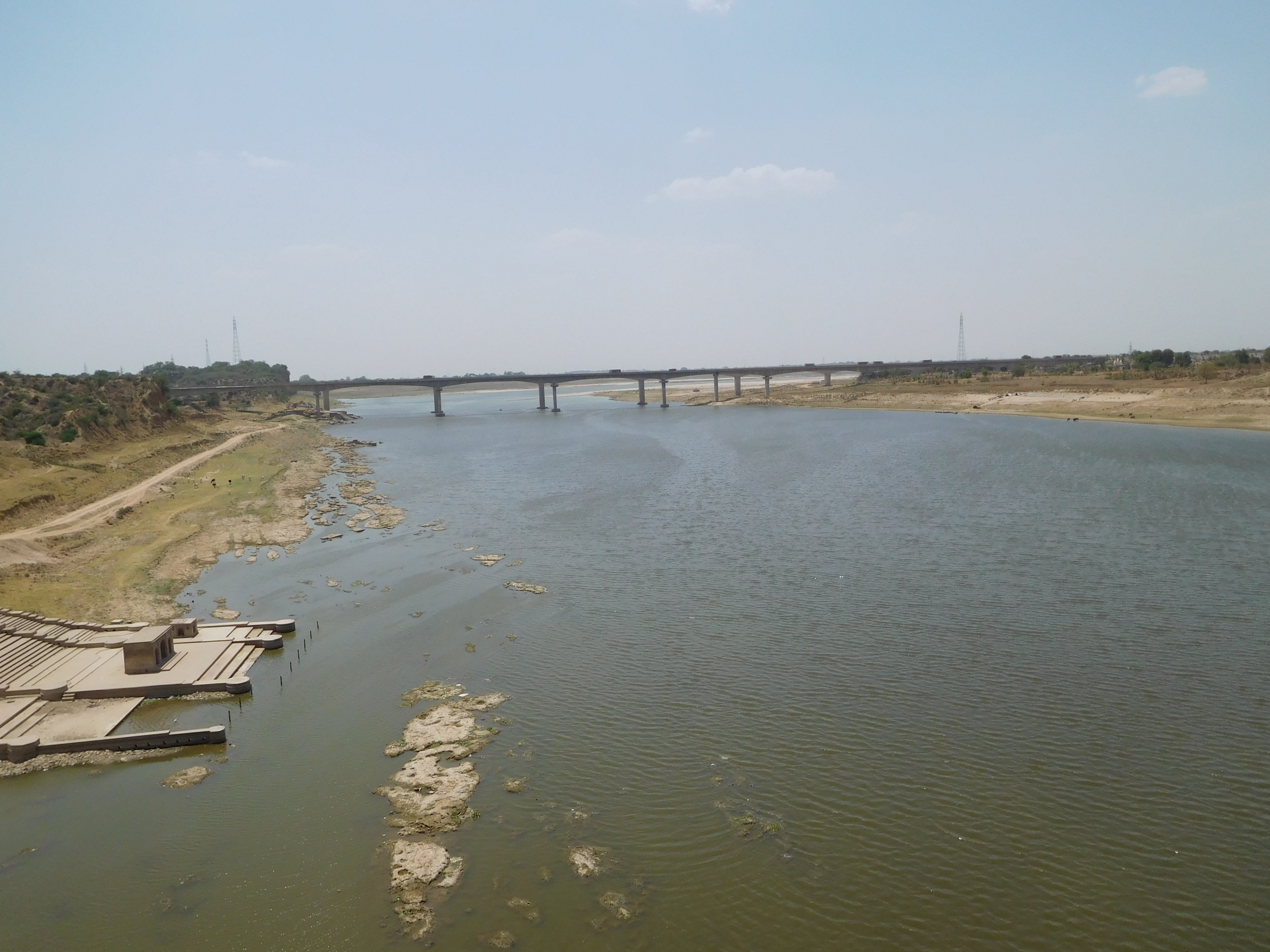 The Holy Yamuna River at Kalpi,Jalaun,Uttar Pradesh,India